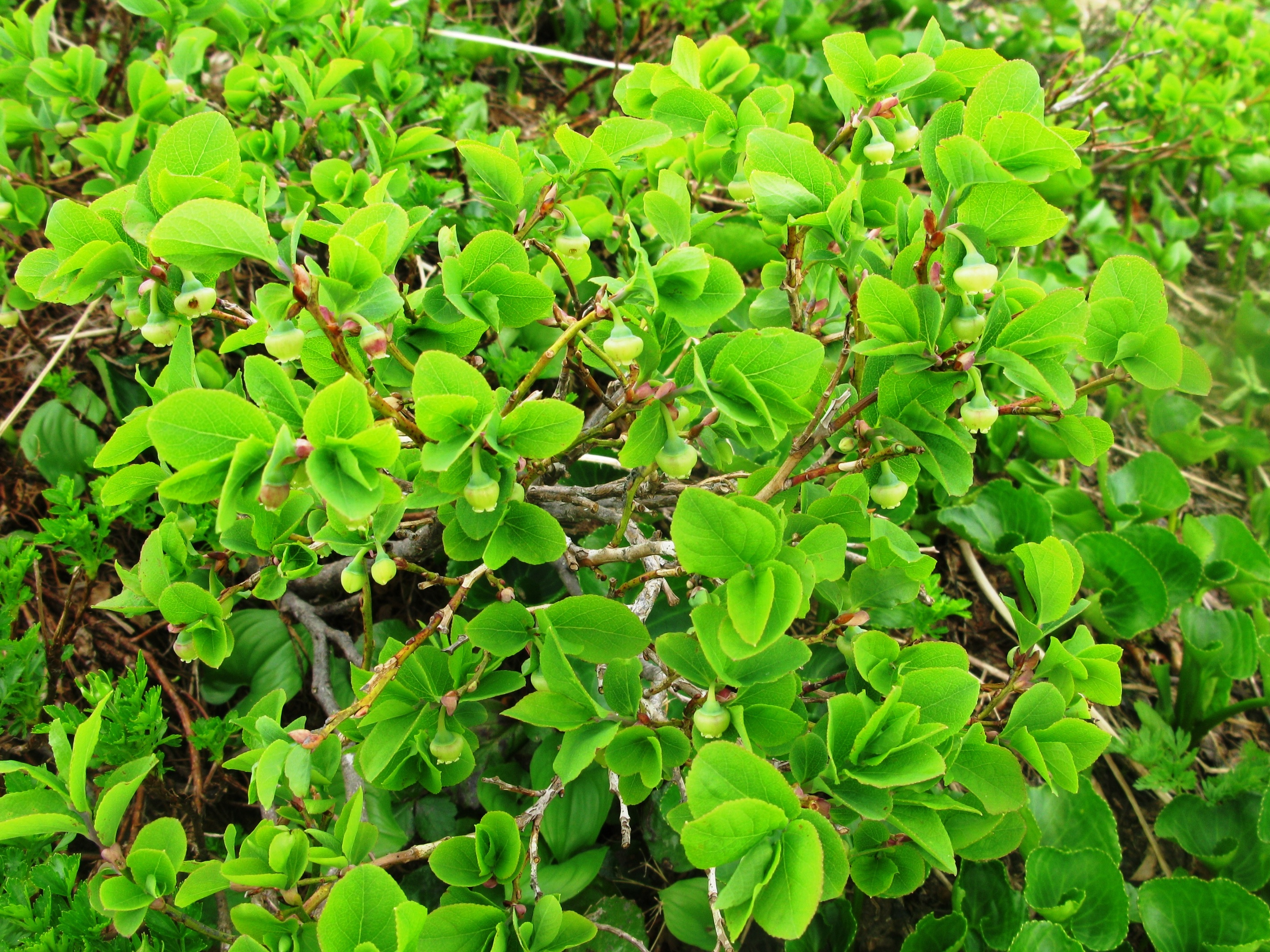 Vaccinium shikokianum,Mt. Iide, Fukushima pref., Japan